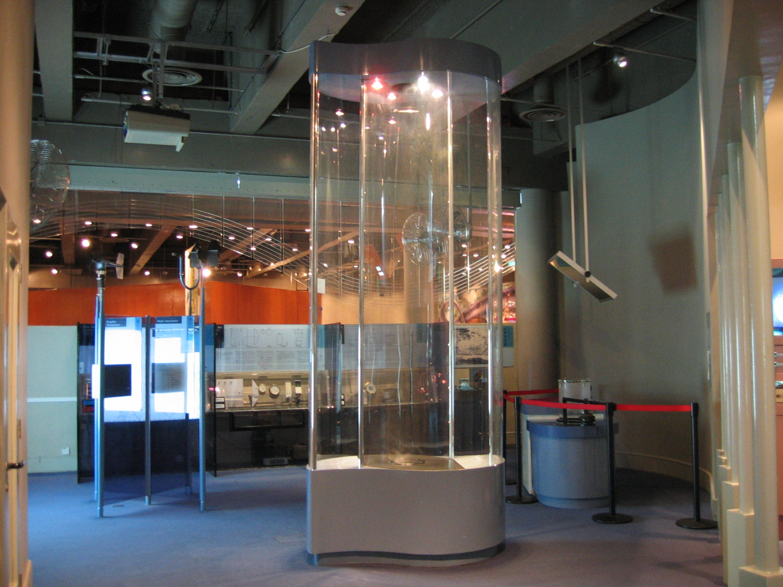 Hong Kong Science Museum Meteorology